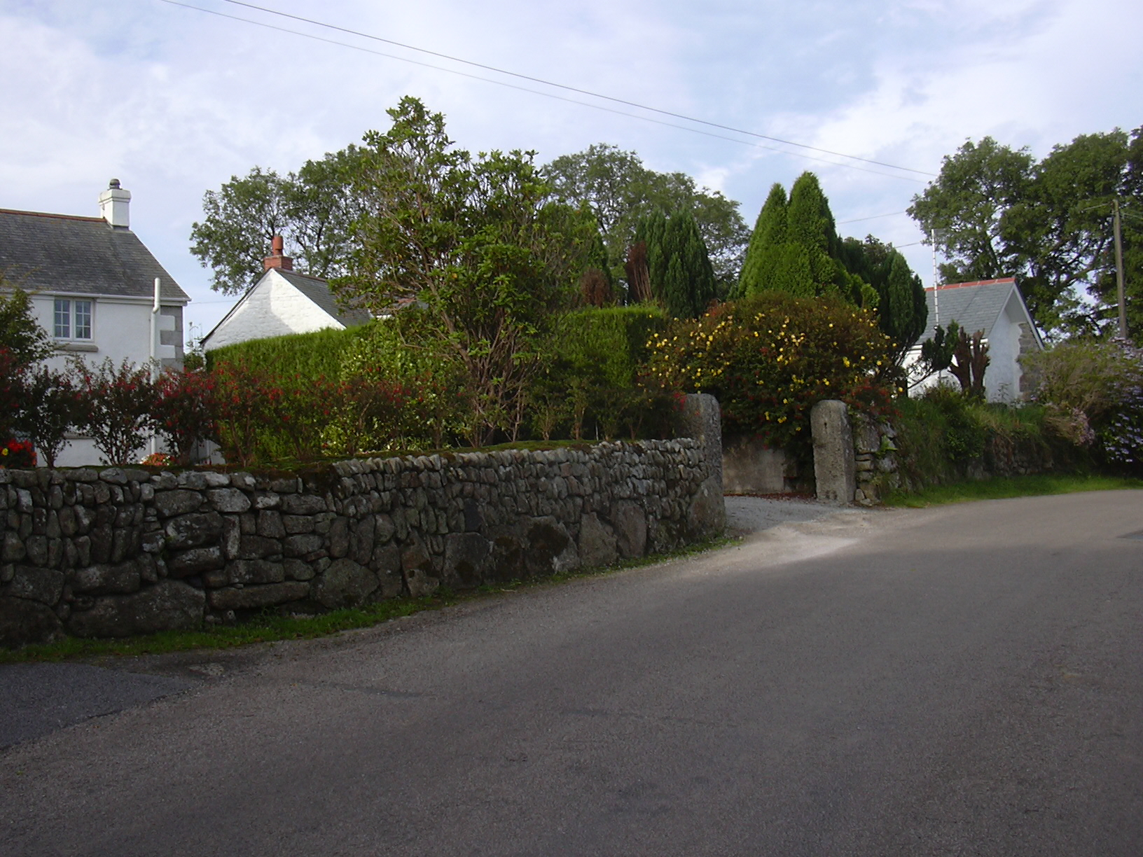 The village of Brill, Cornwall